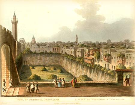 Pool of Bethesda